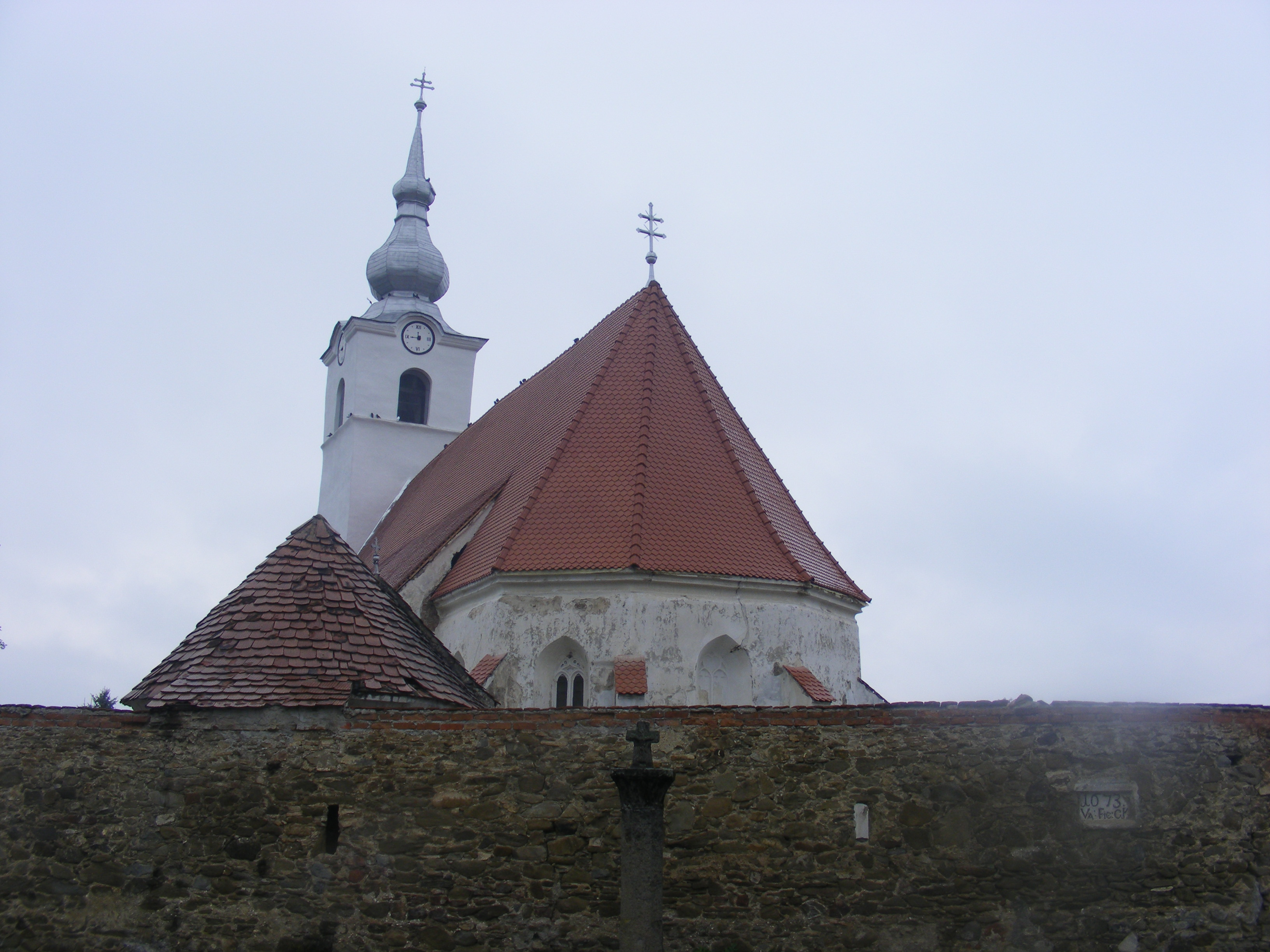 The romano-catholic church (remodelled in the 16th cent.) in Ciucsângeorgiu (Csíkbánkfalva), Romania, Harghita CountyRomână: Biserica romano-catolică în Ciucsângeorgiu (Csíkszentgyörgy), Judeţul Harghita